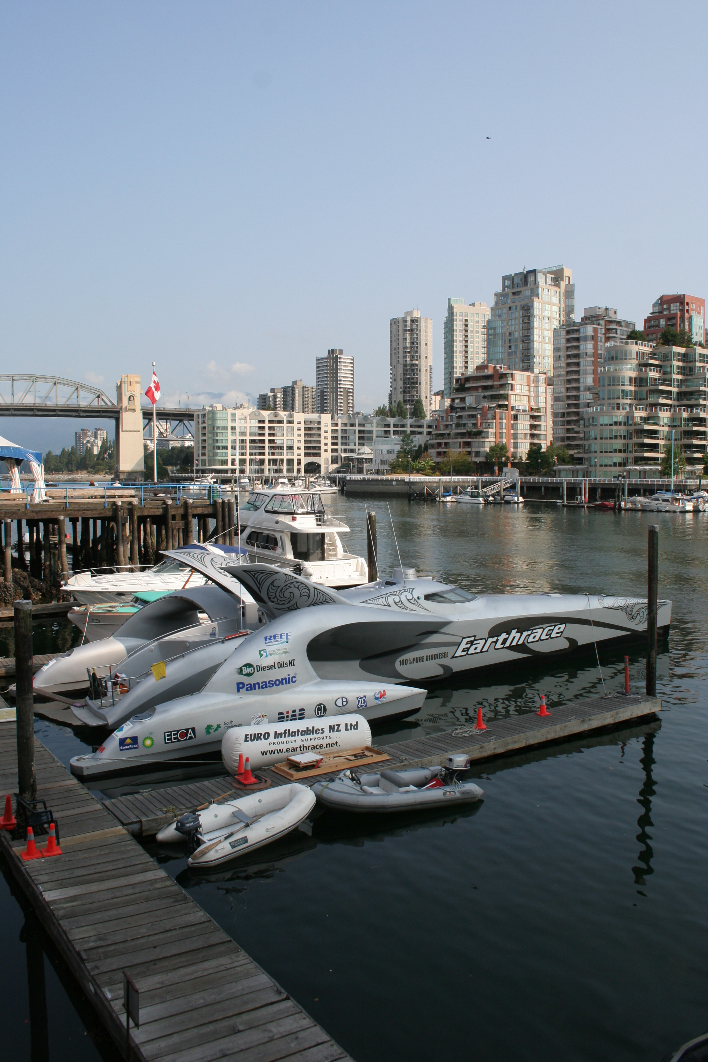 Earthrace Biodiesel powered powerboat on its world tour. Granville Island, Vancouver Canada